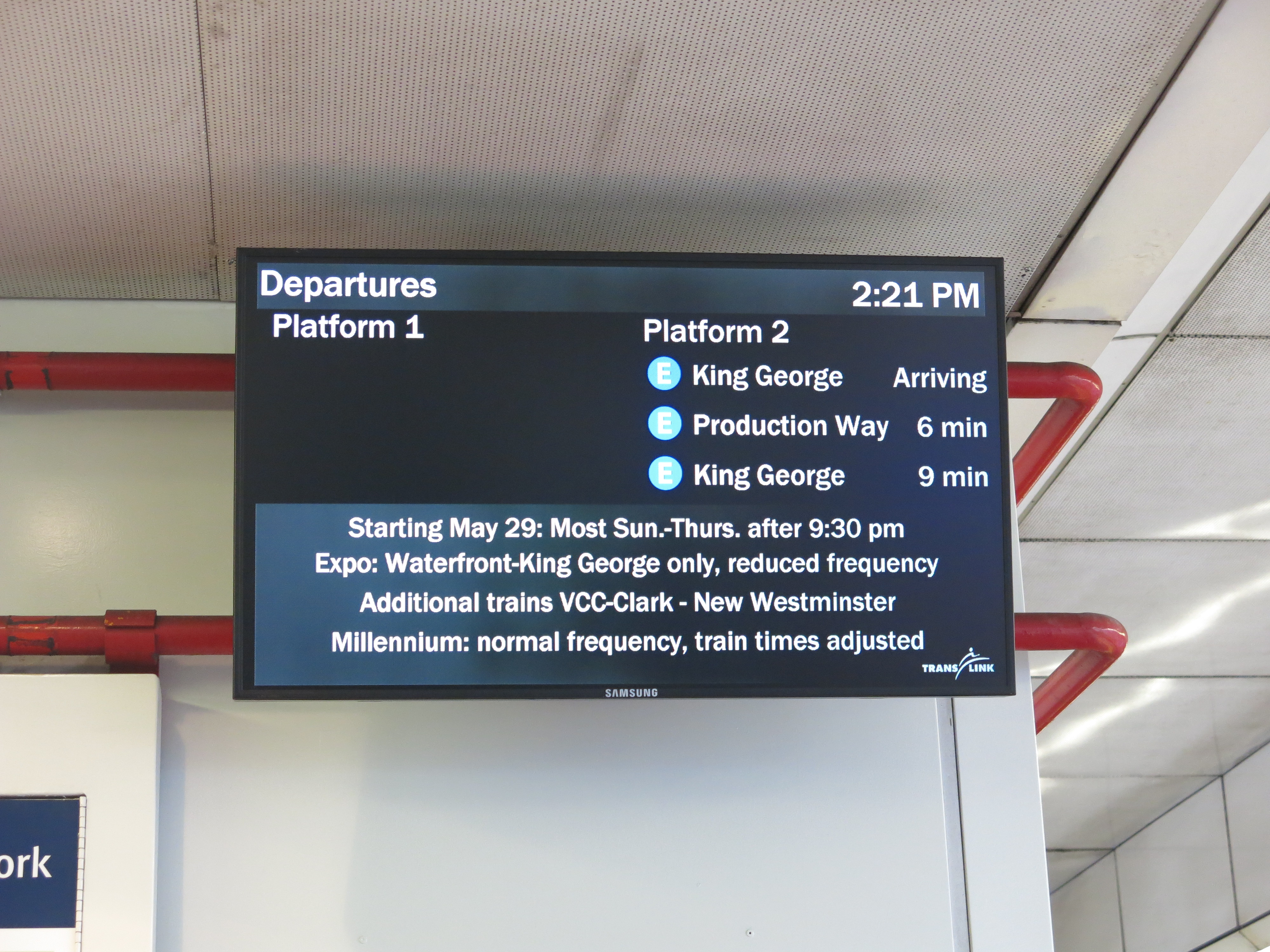 The departure screen on the Expo Line platforms at waterfront Station.